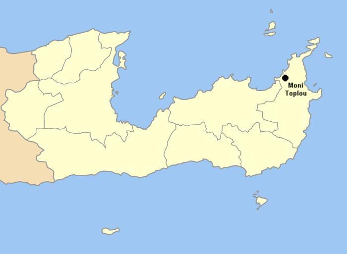 Moni Toplou Location